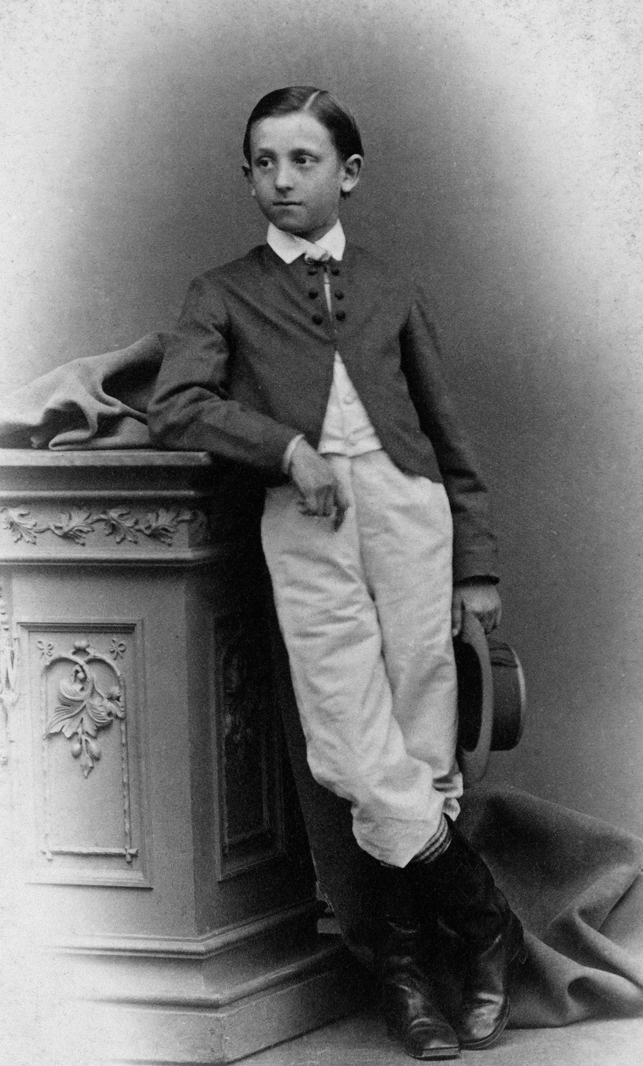 Gustav von der Decken (1861-1931)